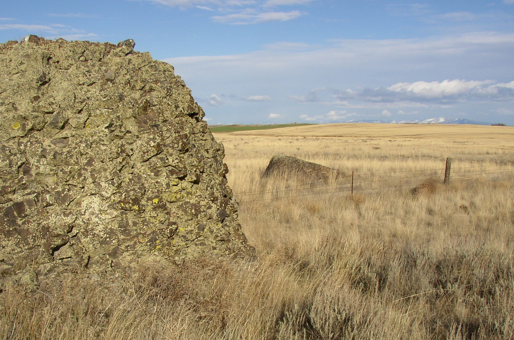 Mixed erratics. Basalt in the foreground—granite in the background. Glacial debris from the terminous of the Okanangon Lobe of the Cordilleran Ice Sheet on the Waterville Plateau, Washington State. Photo taken by uploader. Williamborg 15:40, 12 November 2006 (UTC)